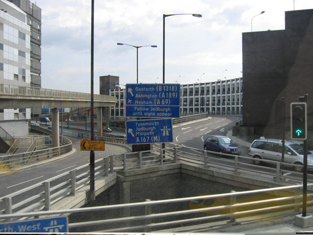 Intersections - Busy exits and entrances to Newcastle Central Motorway.